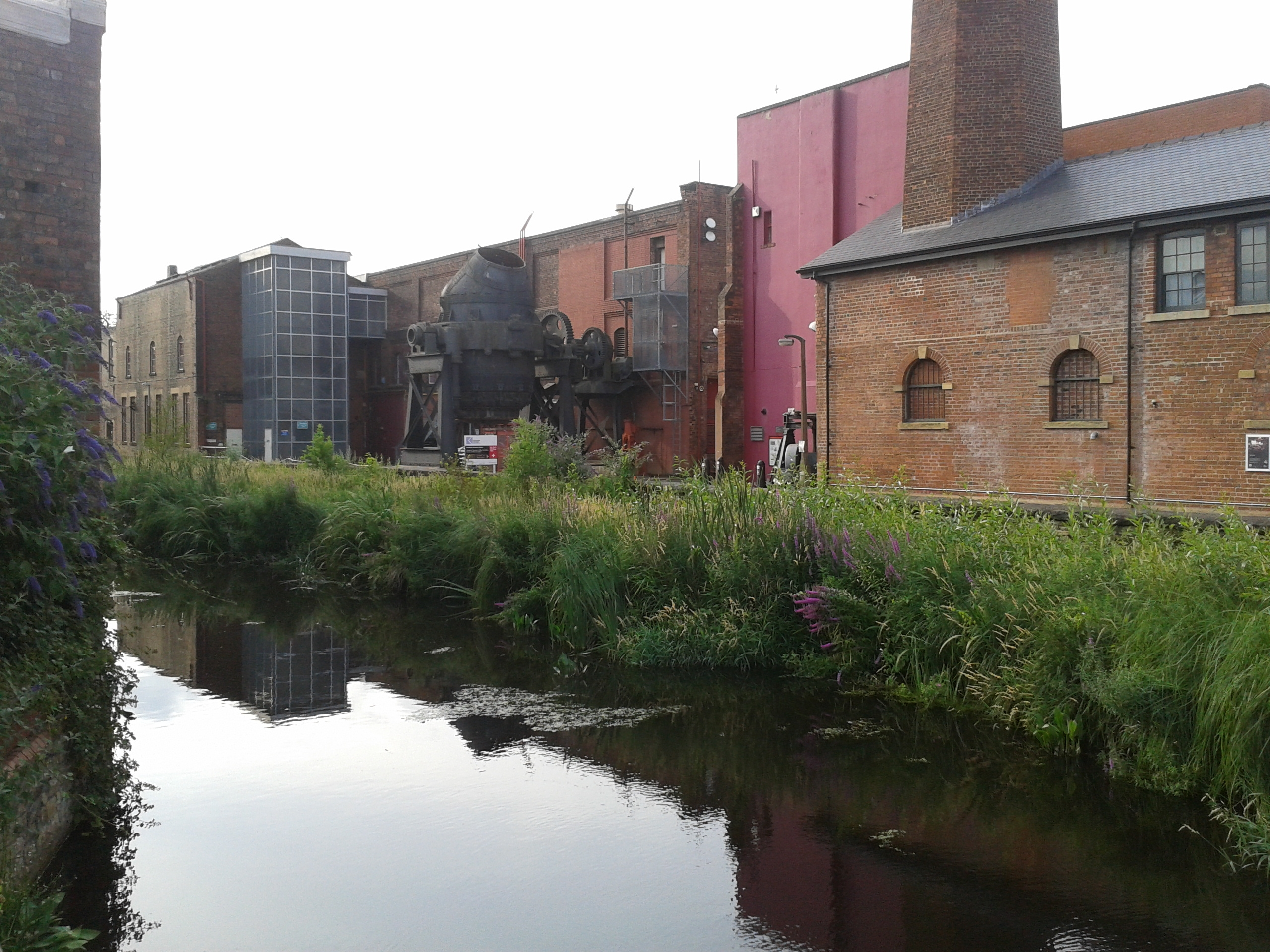 Kelham Island Musem, in the Kelham Island area of Sheffield